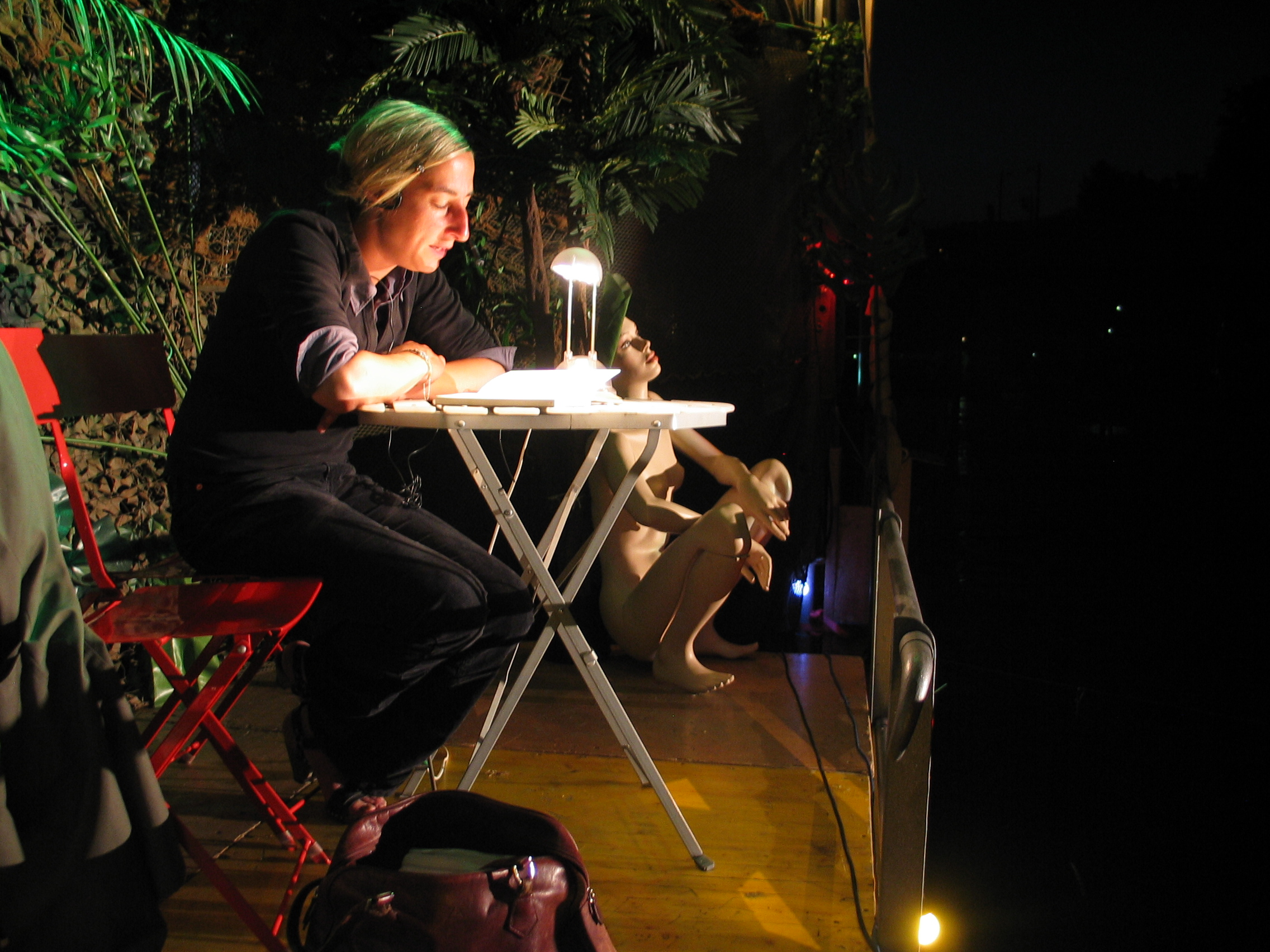 The stage in the middle of the river.